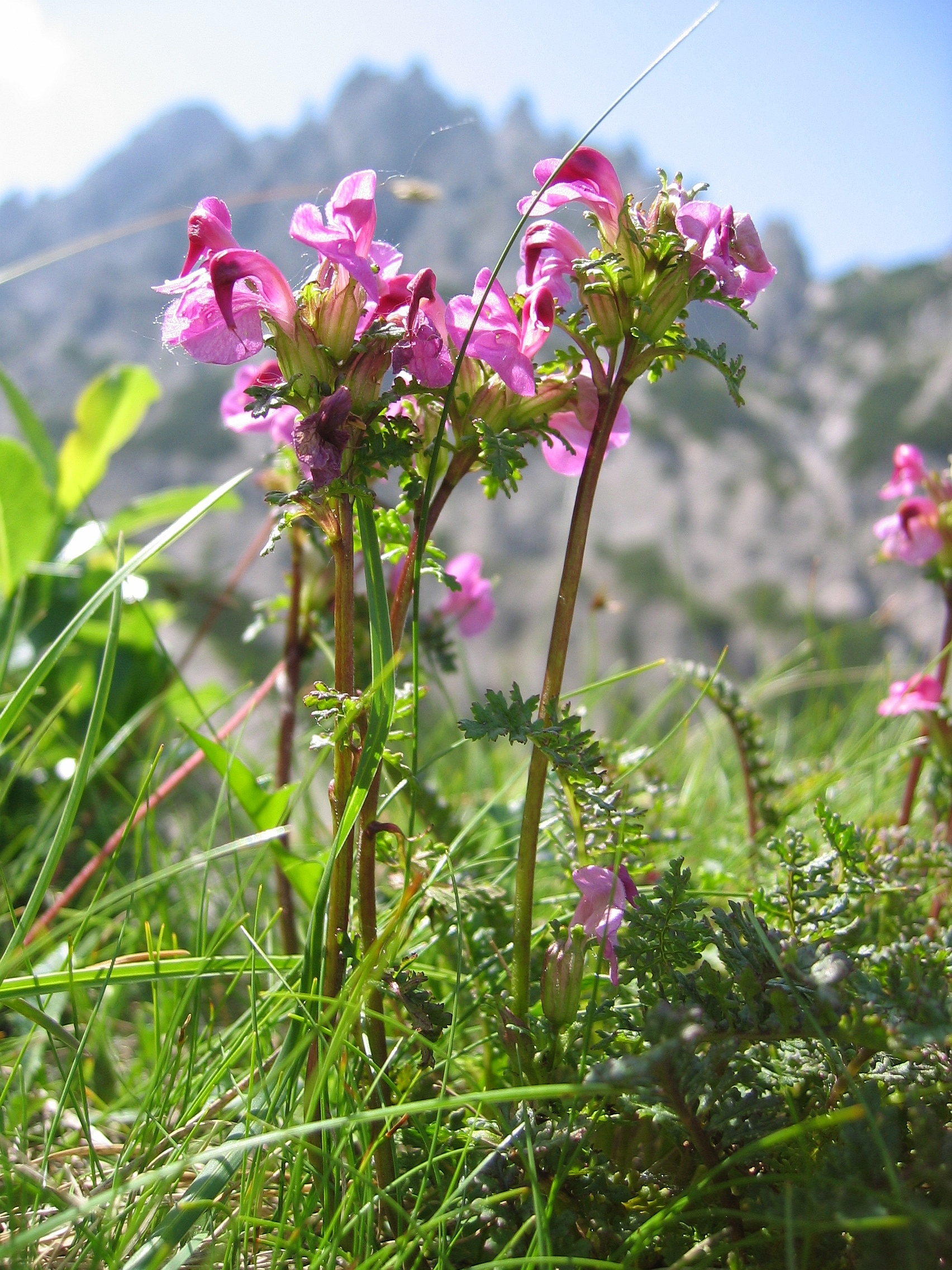 Pedicularis rostratocapitata, Hinterstoder, Upper Austria, Austria